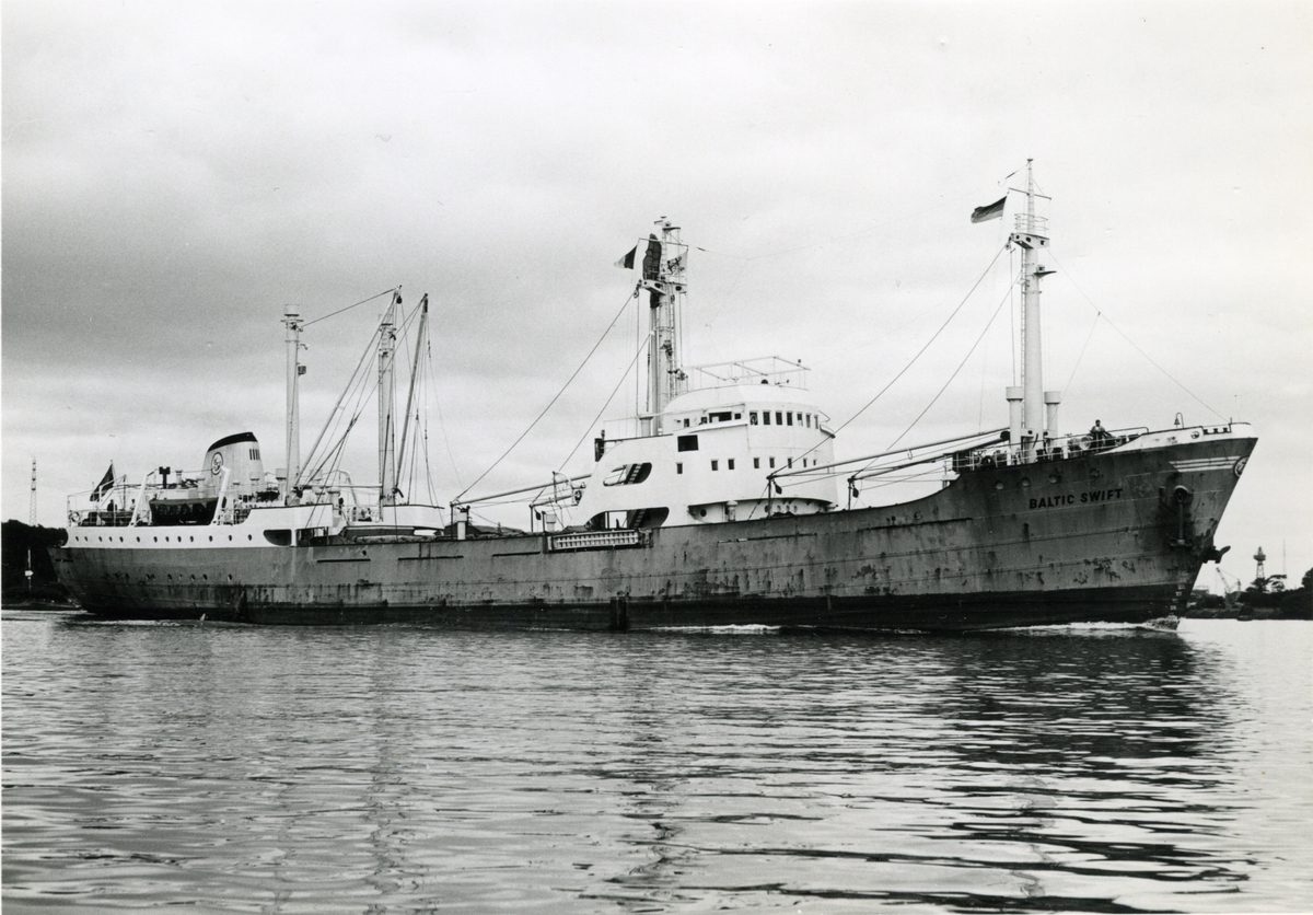 General cargo ship BALTIC SWIFT (IMO 5035206) built at Ottensener Eisenwerk AG, Hamburg-Steinwerder (yard № 503, launched: 26-11-1956, delivered: 03-1957), later names: 1973 FIJIAN SWIFT, 1976 HA'AMOTAHA, BU Auckland 12-03-1979, collection J. Robert Boman (1926 - 2002) owned by Sjöhistoriska museet.